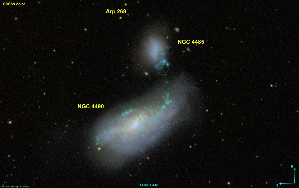 Image created using the Aladin Sky Atlas software from the Strasbourg Astronomical Data Center and SDSS (Sloan Digital Sky Survey) public data.